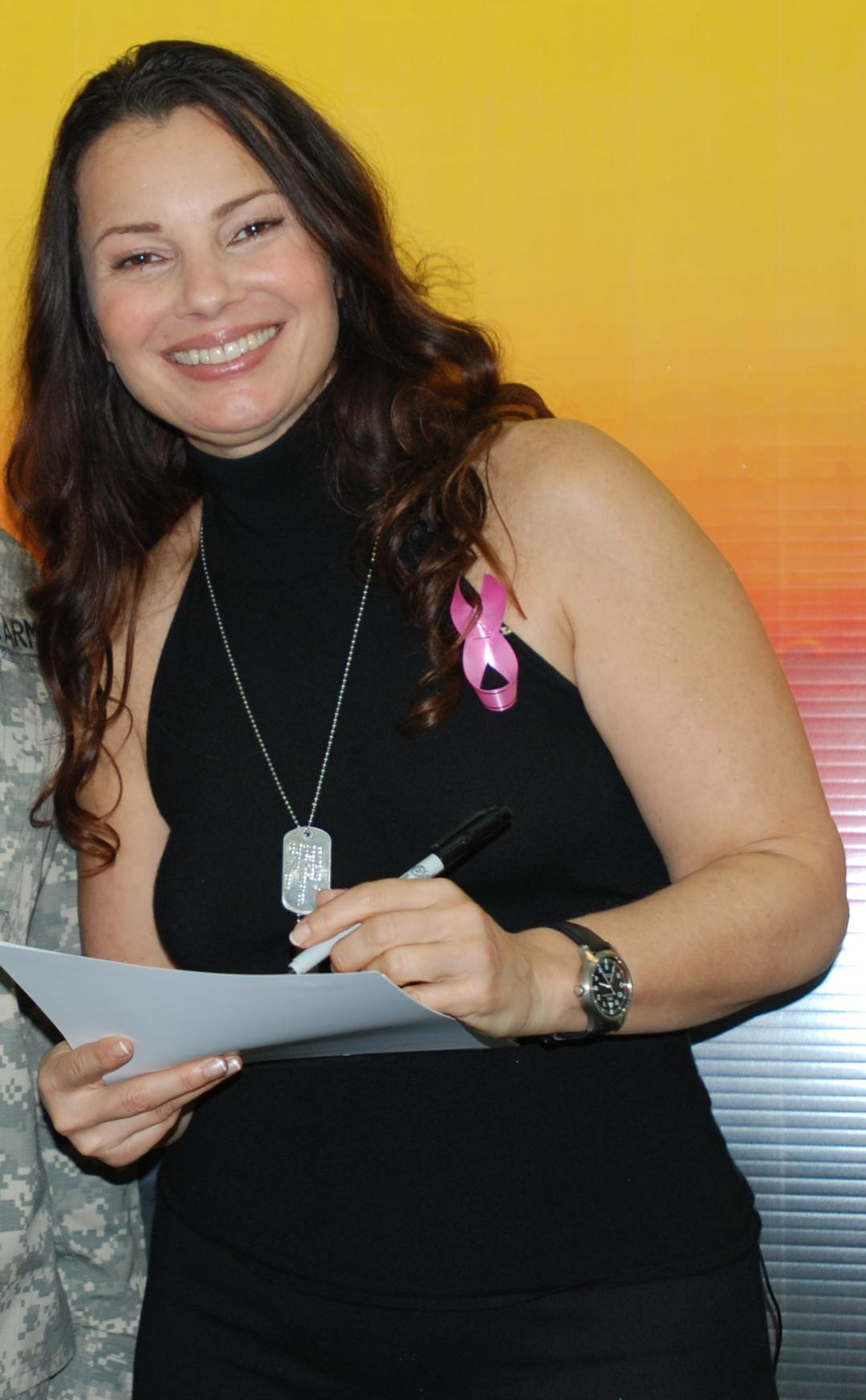 My sister and Fran Drescher.